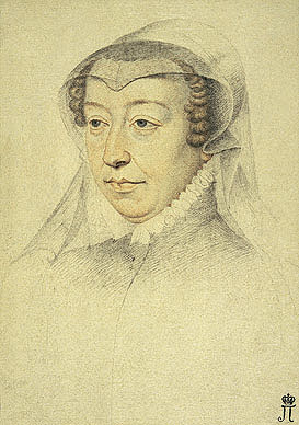 Catherine de Medici (Catherine of Medici), Queen of France, in widowhood